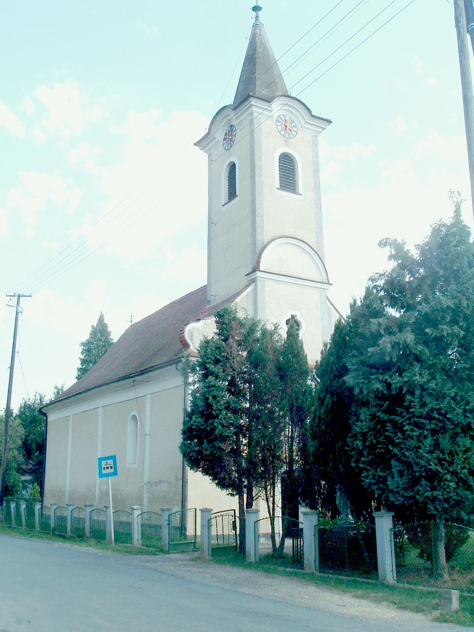 The Roman Catholic Church in Gasztony.